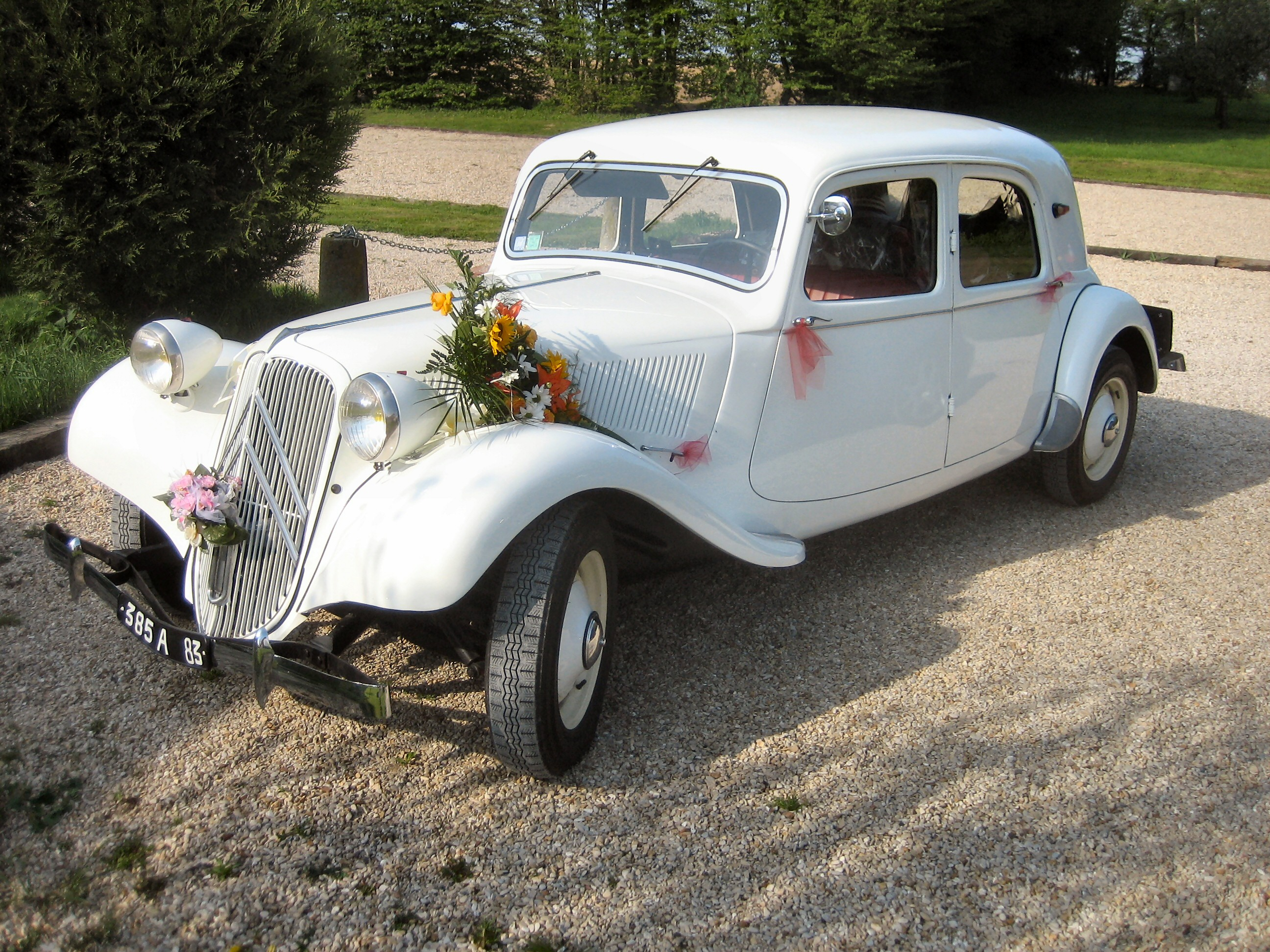 Citroën Traction Avant parked in the courtyard of the castle of Sancy adjoining the Our Lady of Assumption church in Sancy (Seine-et-Marne), France.